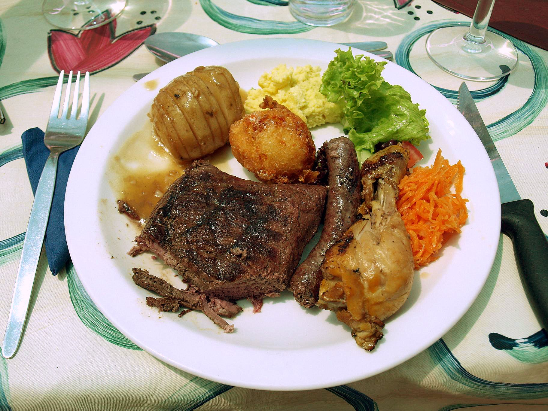 South African meal: ostrich steak, ostrich sausage, chicken leg, corn ball, potato, salads